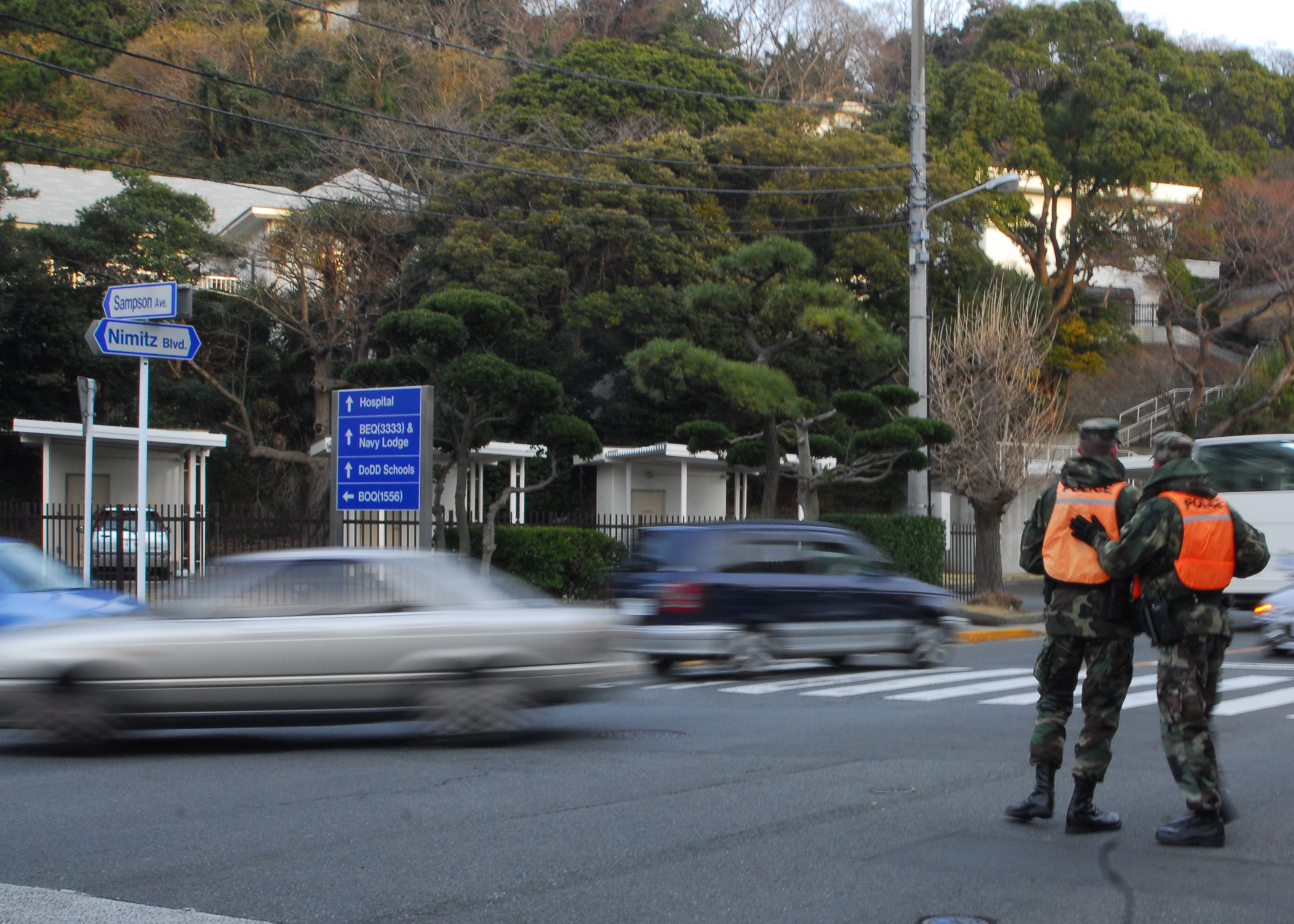 YOKOSUKA, Japan (Feb. 4, 2010) Master-At-Arms 3rd Class Mark Jarvis, from Aurora, Colo., left, relieves Master-At-Arms 1st Class James Guthrie, from Wichita Falls, Texas, from crossing guard duties at the Womble Gate at Fleet Activities Yokosuka. (U.S. Navy photo by Mass Communication Specialist Seaman Mike Mulcare/Released)